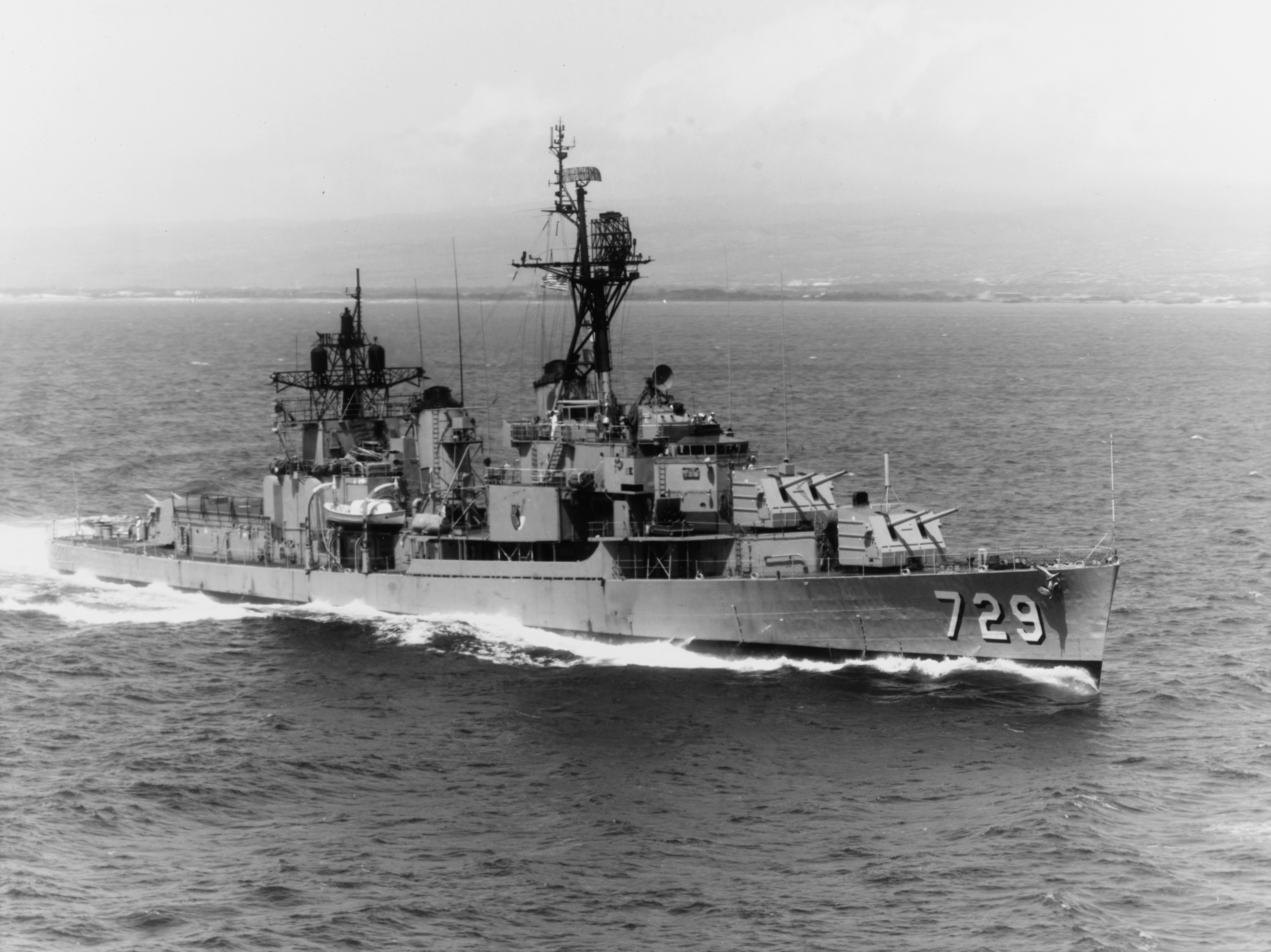 The U.S. Navy destroyer USS Lyman K. Swenson (DD-729) underway off Oahu, Hawaii (USA), on 16 March 1970.